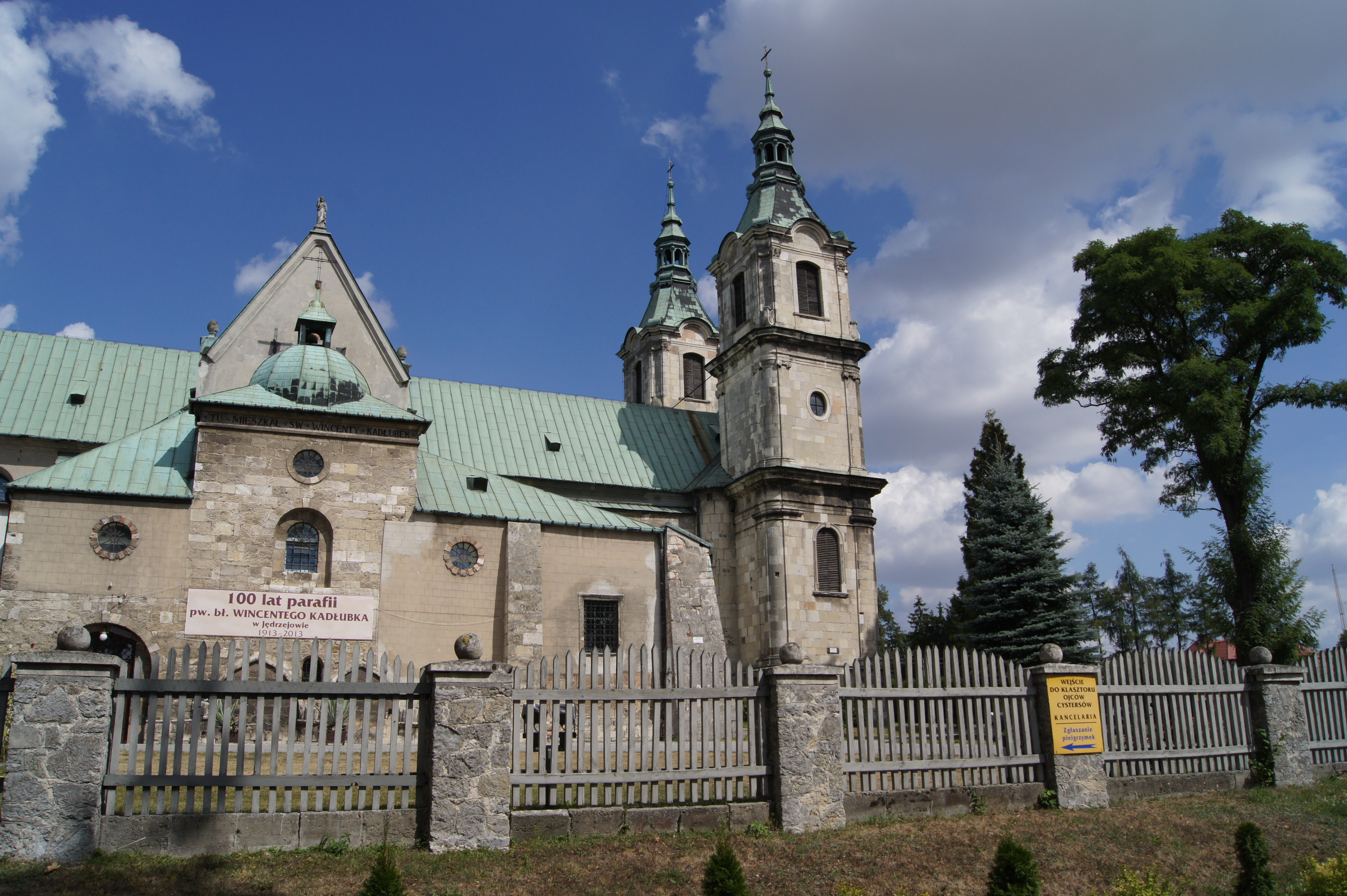 Cistercian Abbey in Jędrzejów Native nameArchiopactwo Cystersów w JędrzejowieLocationJędrzejówCoordinates50° 39′ 13″ N, 20° 17′ 04″ E Established1140Authority control : Q1775407